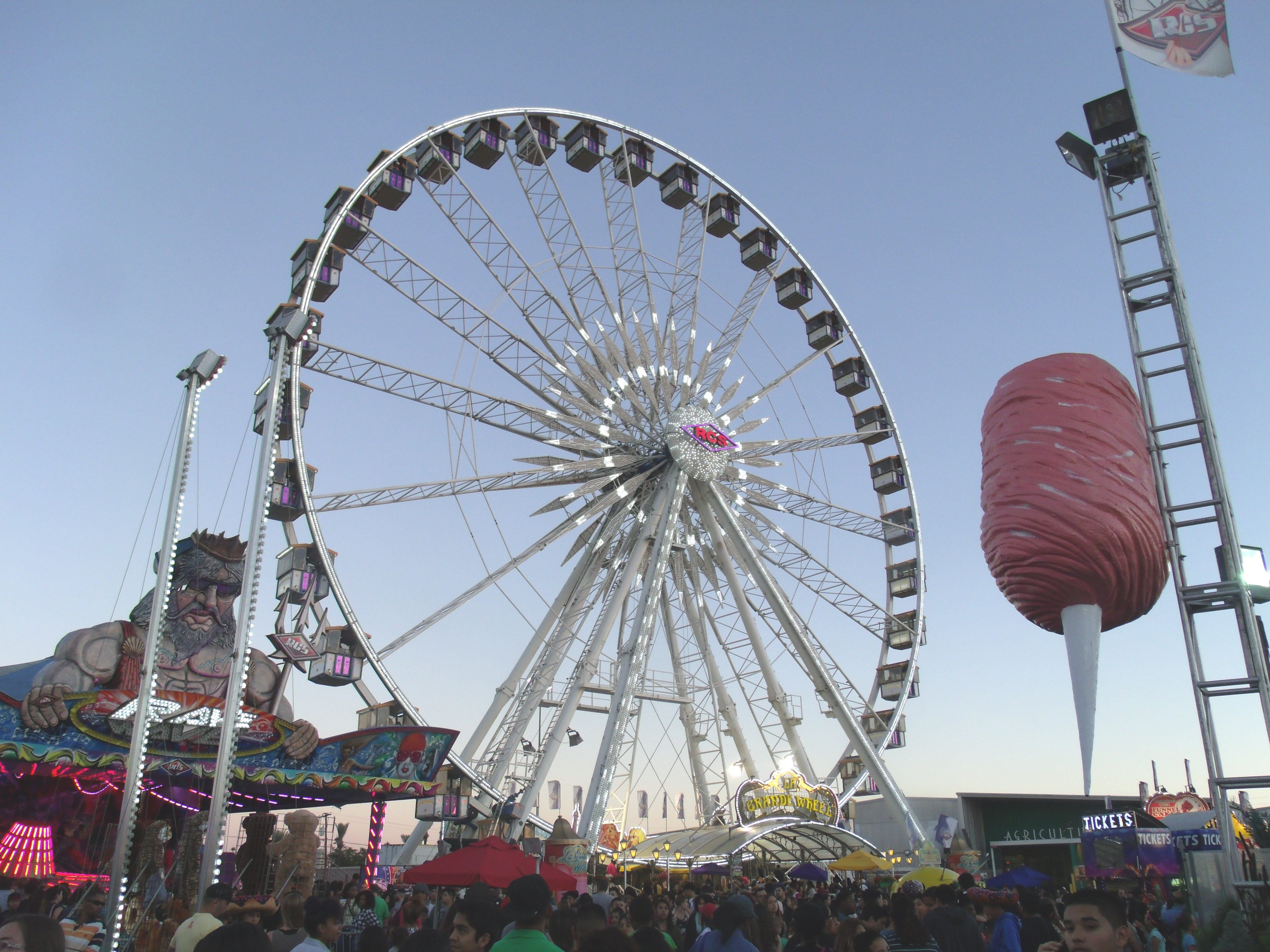 La Grande Wheel is the largest transportable Ferris Wheel in the world. The height of La Grande Wheel is 130 feet. [1]. The Ferris Wheel is located on the Arizona State Fairgrounds at 1826 West McDowell Road.